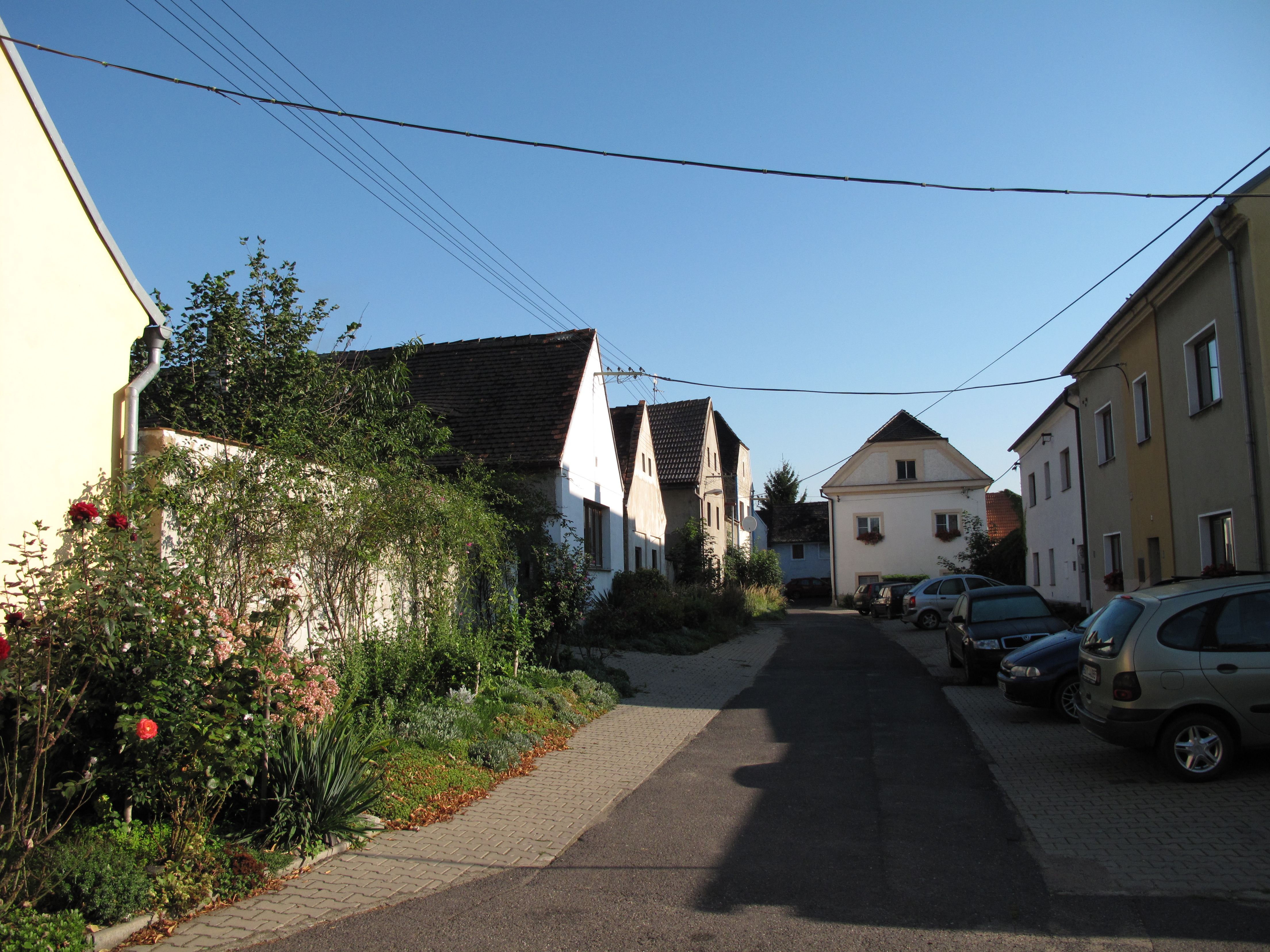 Street with front gardens in Lhotka nad Labem, Litoměřice Distric, Czech Republic.